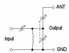 the SPC match used as a 'ATU' in radio equipment